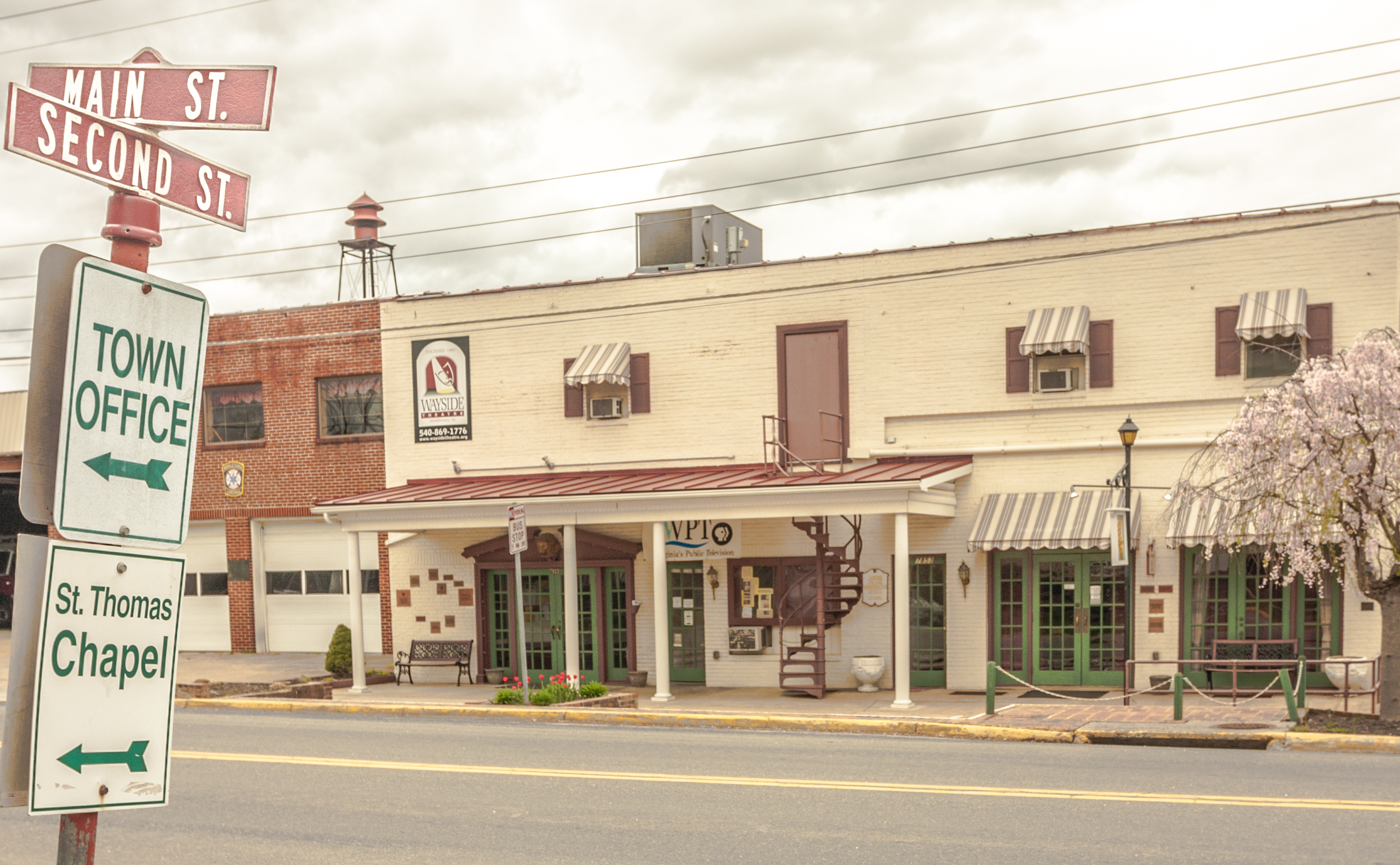 Wayside Theatre at Main and Second Streets in Middletown Historic District